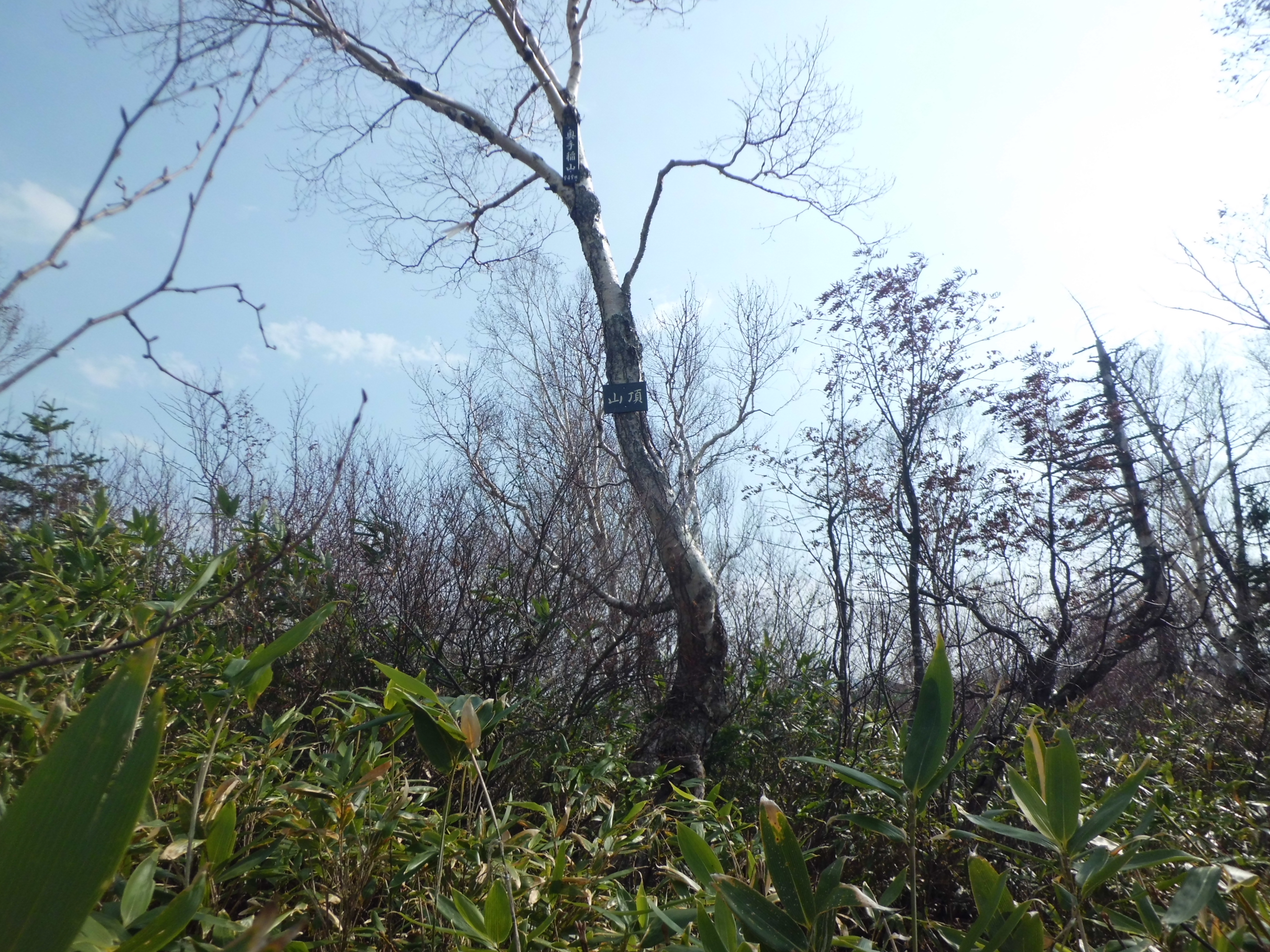 Summit of Mount Oku-Teine